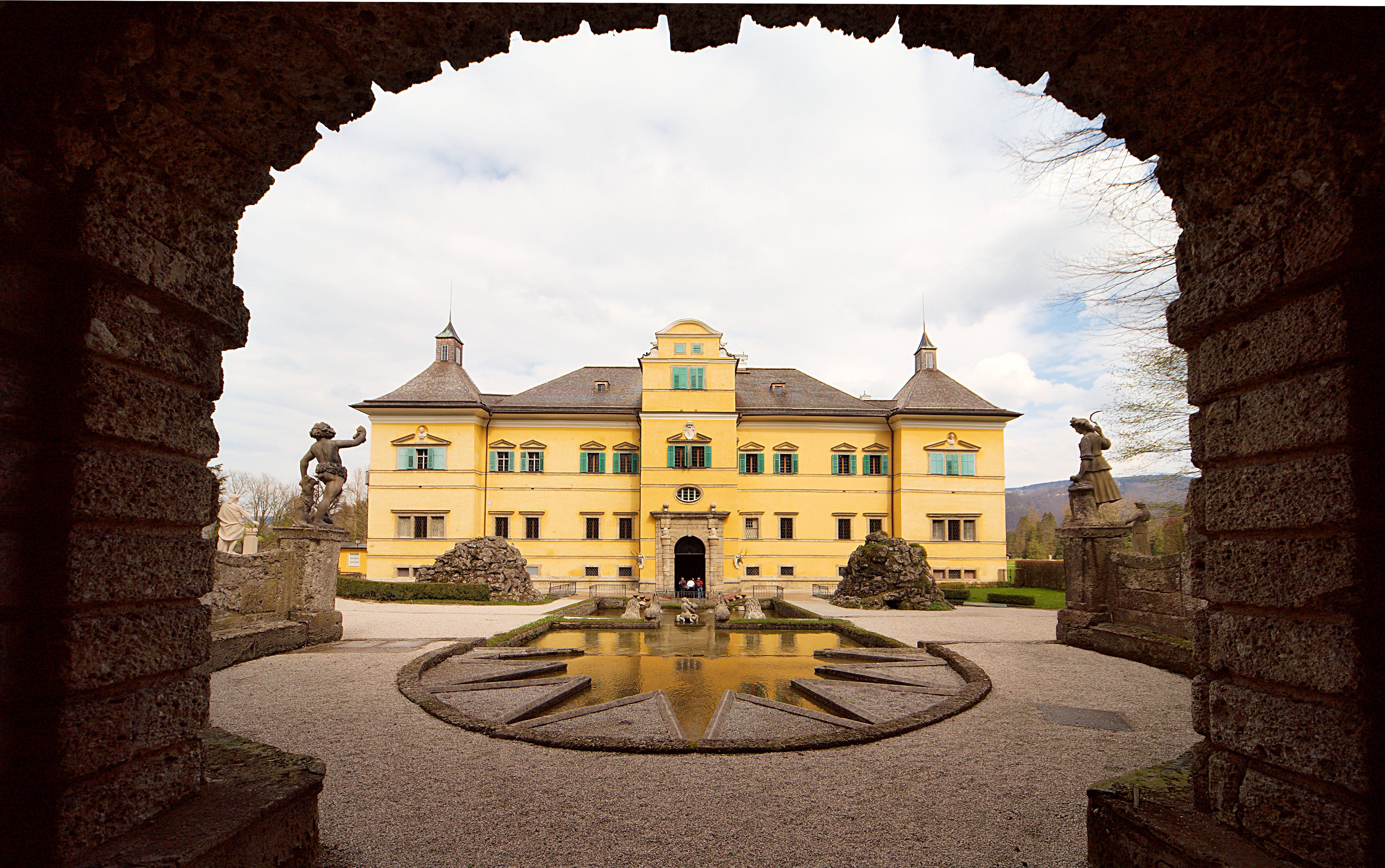 Austria, Salzburg, Hellbrunn Palace